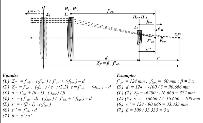 Focal extender using a Barlow lens.